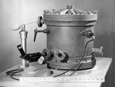 Orginal Millikan’s oil-drop apparatus.